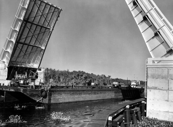 Crow Bluff Bridge opens to allow a boat through : Volusia County, Florida.